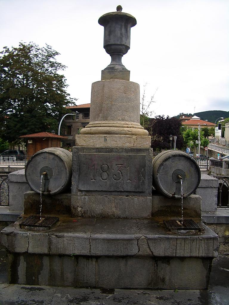 A water fountain on Azkoitia's central square